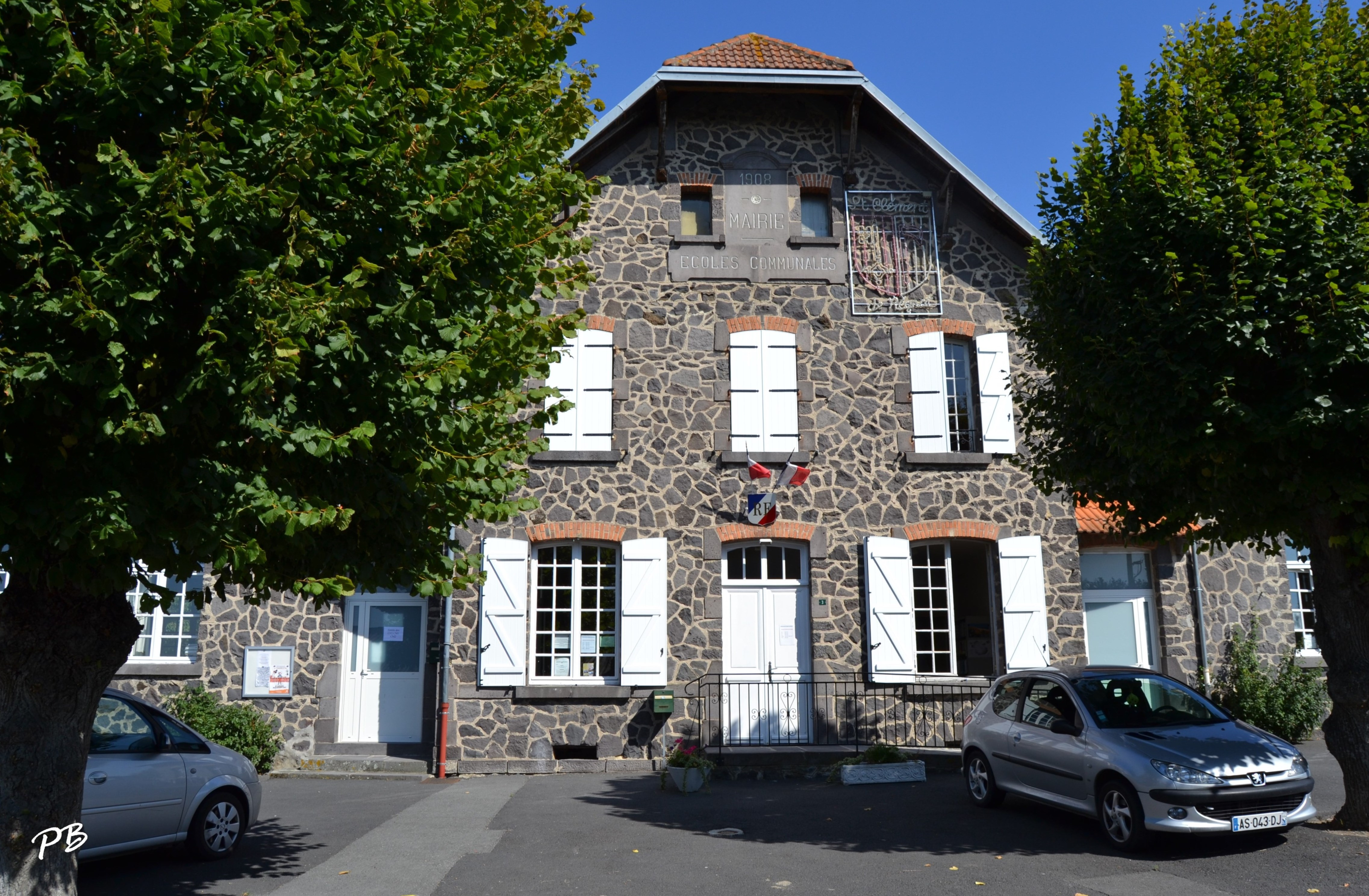 La Mairie